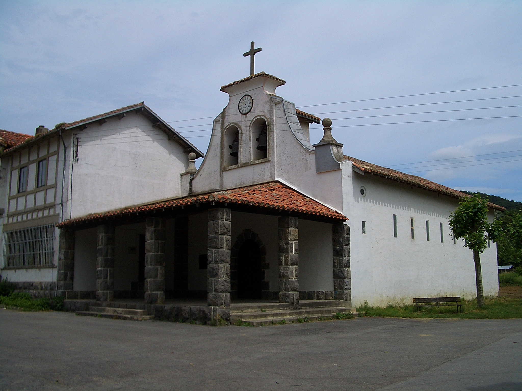 A church near the north shore of the Reservoir Ulibarri-Gamboa, probably in/near the village of Landa